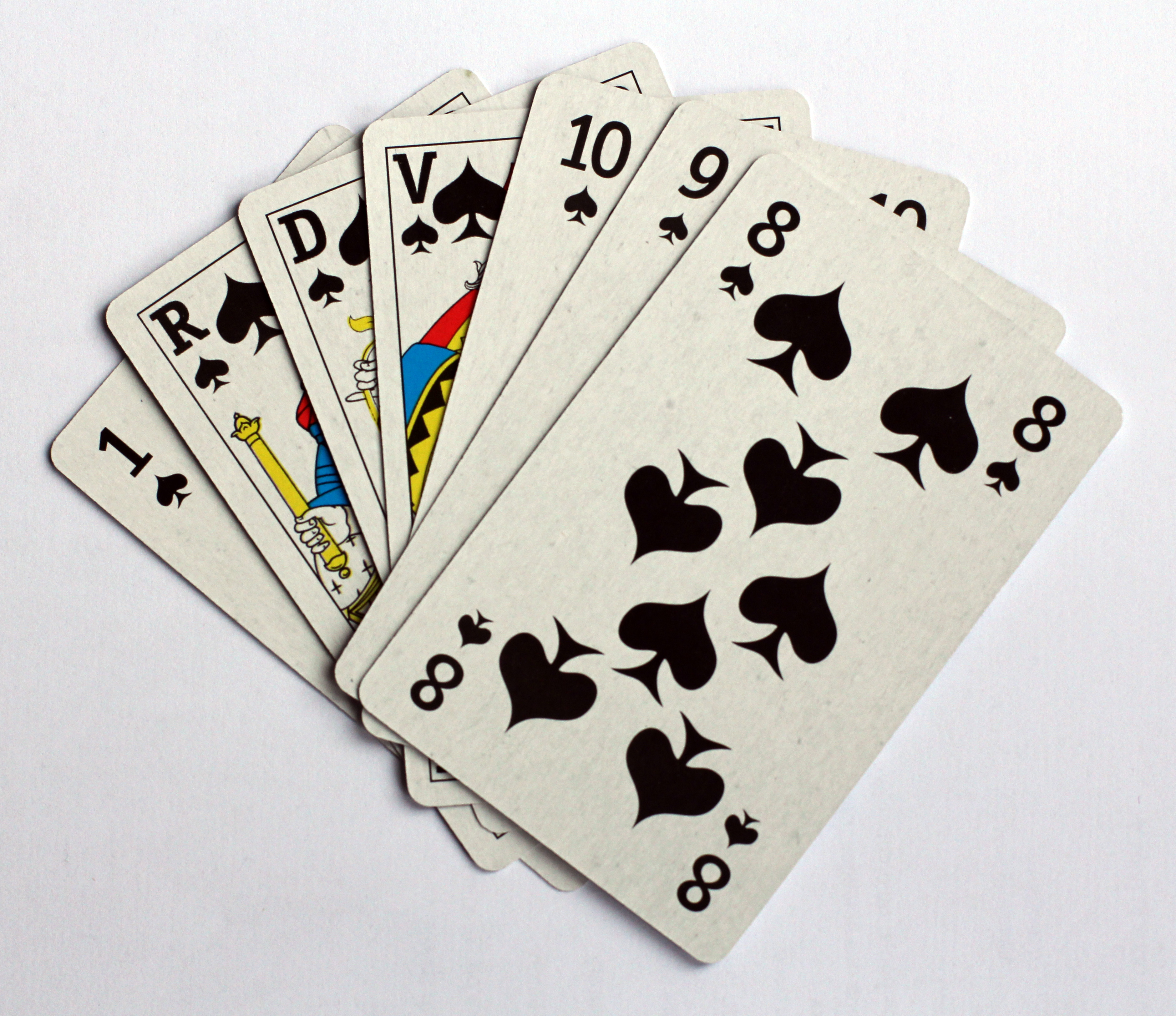 Suit of Spades from a 28-card French pack as used in the historical French game of Brelan